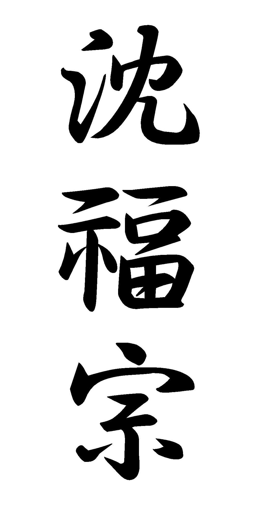 Ideograms for Michael Shen Fu Tsung